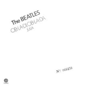 A cover of the single "Ob-La-Di" by The Beatles.